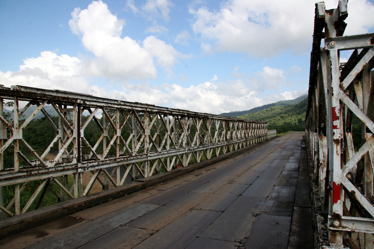 Abandoned railroad bridge, turned into a highway bridge along the Humminbird Highway in Belize.